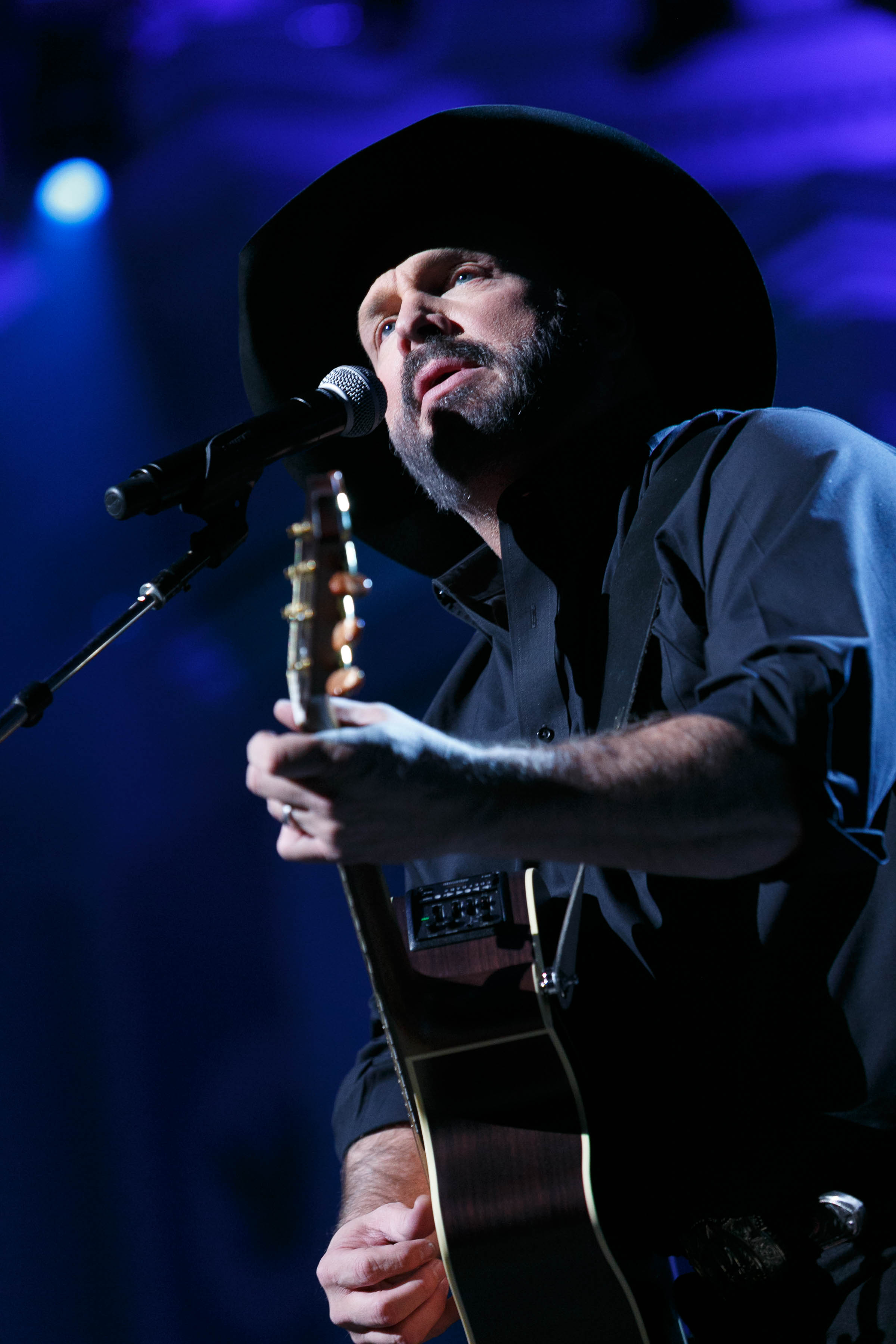 Garth Brooks performs at the 2020 Library of Congress Gershwin Prize for Popular Song concert at DAR Constitution Hall in Washington, D.C., March 4, 2020. Photo by Shawn Miller/Library of Congress. Note: Privacy and publicity rights for individuals depicted may apply.